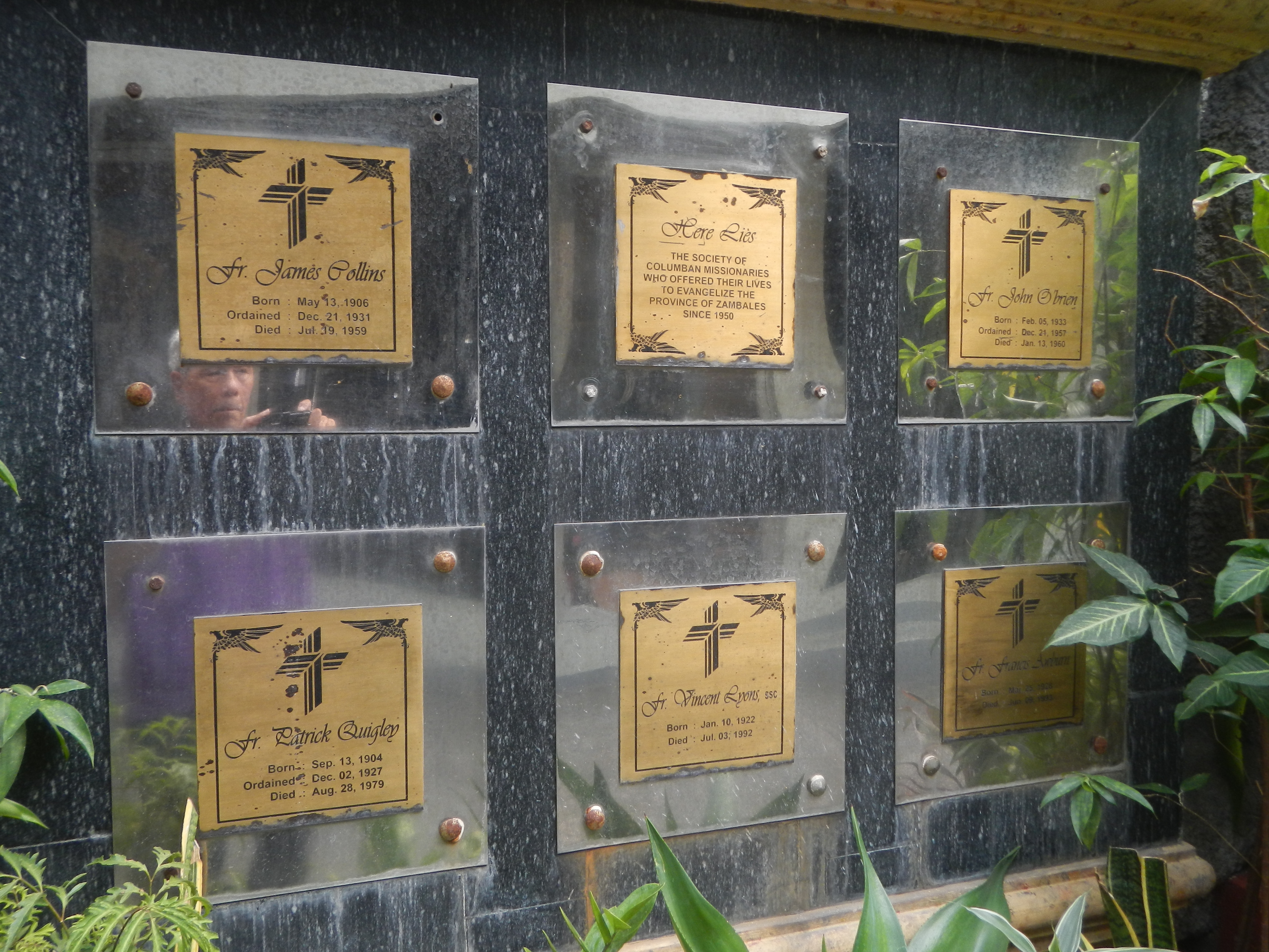 Interior of the Saint Columban Parish Church (New Asinan, Olongapo City) Roman Catholic Diocese of Iba Statues of Saint Columbanus in the Philippines Barangays New Asinan, Olongapo City 14°49'41"N 120°16'59"E East Tapinac 14°49'59"N 120°17'3"E East Bajac-bajac 14°50'29"N 120°17'28"E West Bajac-bajac, 14°50'36"N 120°17'22"E Olongapo City from and along Jose Abad Santos Avenue or Olongapo–Gapan Road Philippine highway network (Note: Judge Florentino Floro, the owner, to repeat, Donor Florentino Floro of all these photos hereby donate gratuitously, freely and unconditionally Judge Floro all these photos to and for Wikimedia Commons, exclusively, for public use of the public domain, and again without any condition whatsoever).